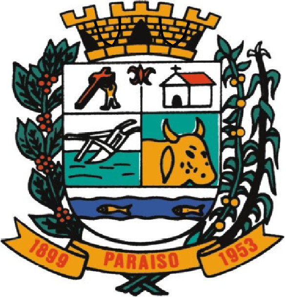 Coat of Arms of the city of Paraíso, São Paulo state, Brazil. Based on the city oficial website. Emerson